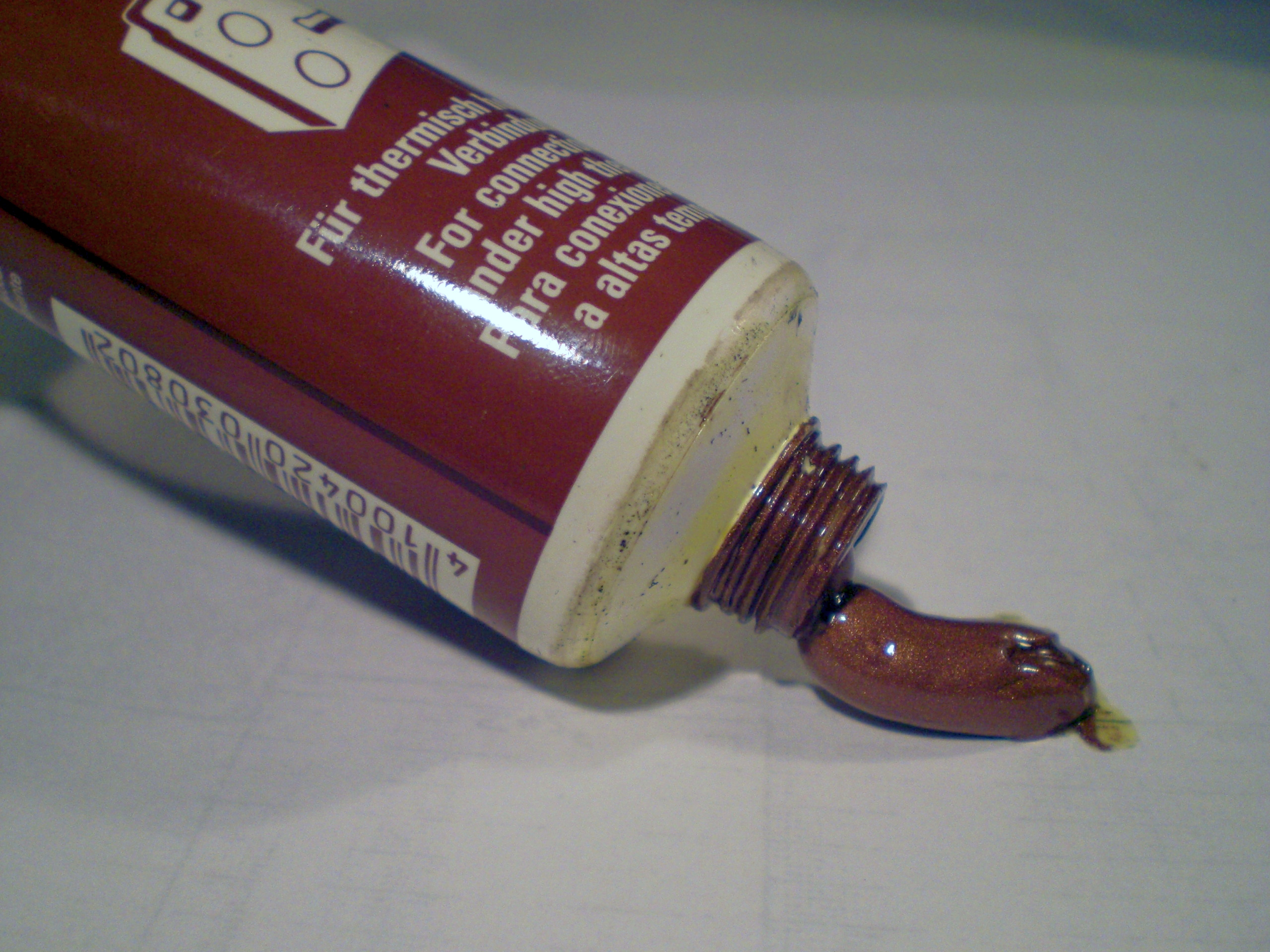 anti-seize Compound, trivial: copper grease